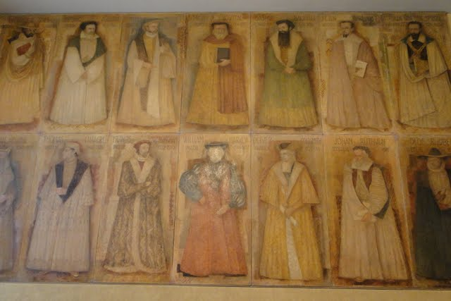 Famous personalities on the walls of lecture hall